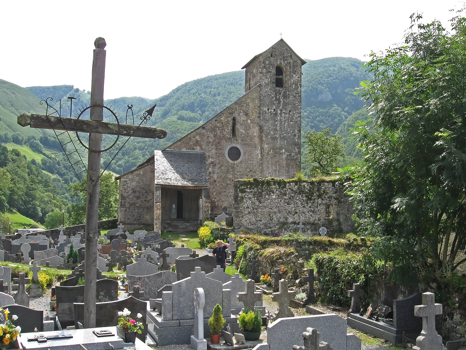 Sainte-Engrâce church, in the French Basque Country